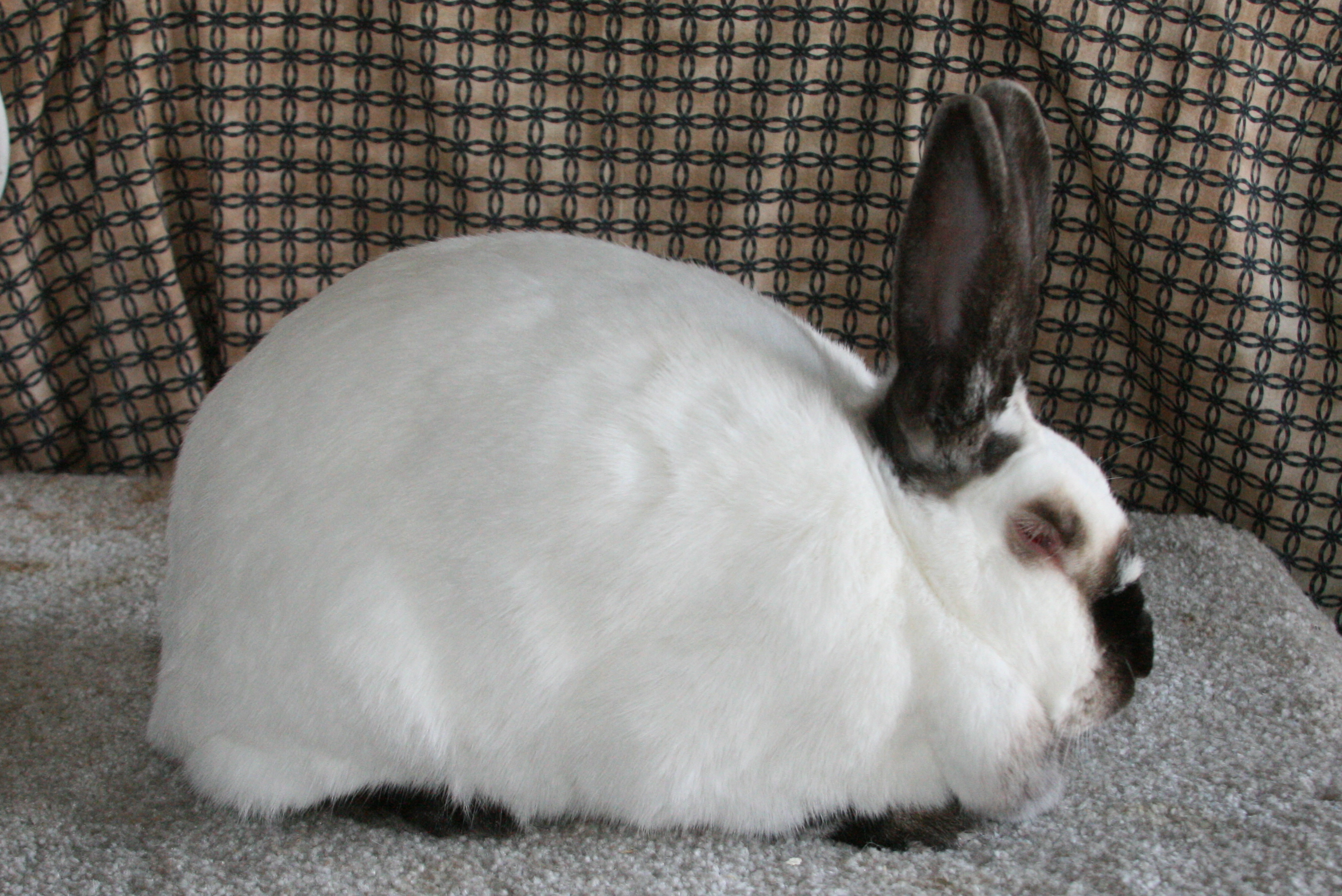 Californian Rabbit